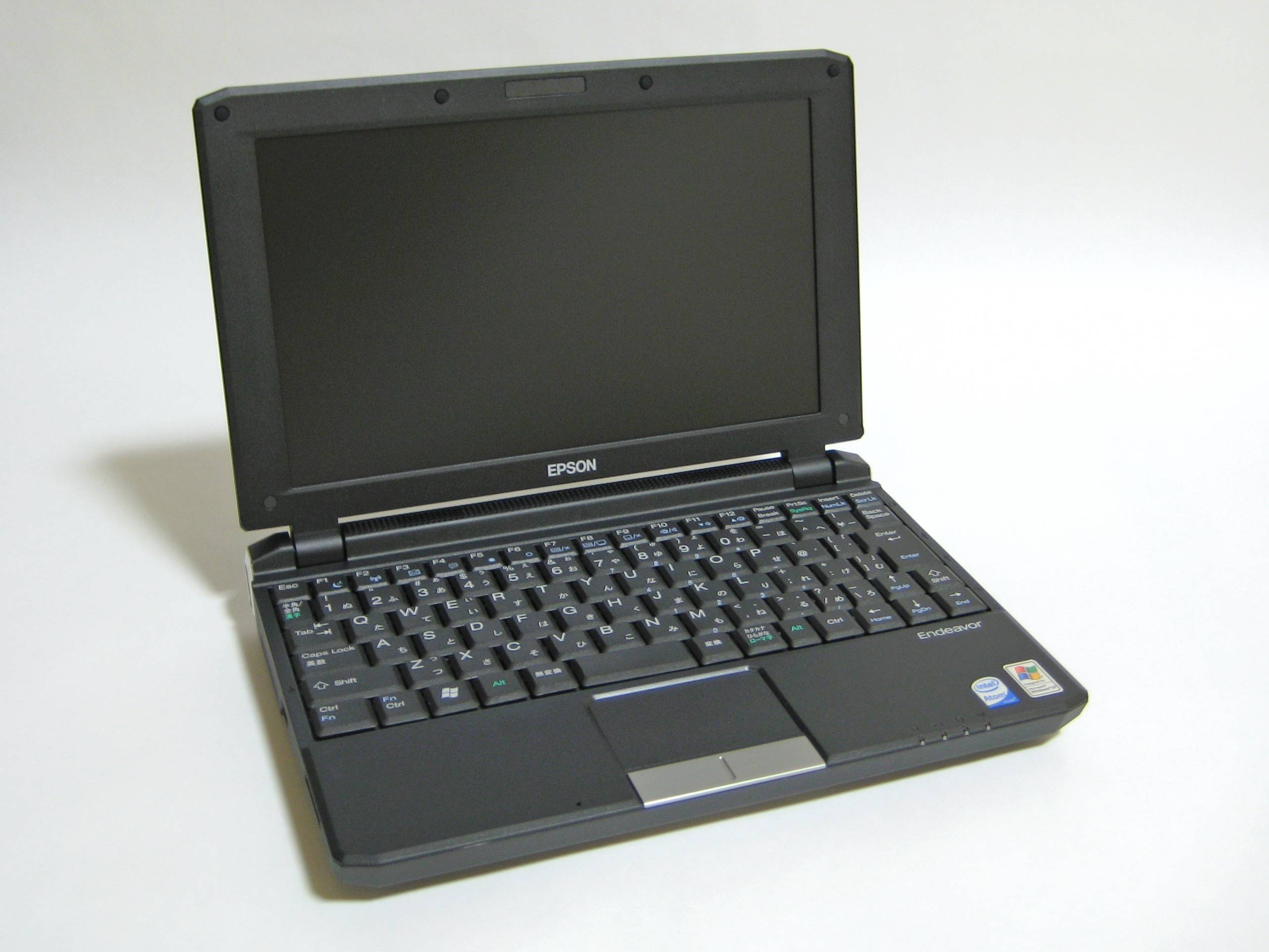 Epson Endeavor Na01 mini.